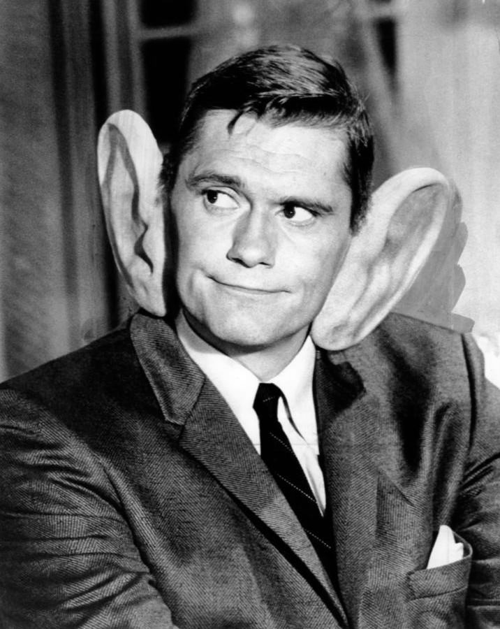 Photo of Dick York from the television program Bewitched. In the episode, "My. What Big Ears You Have!", Endora works a spell on Darrin that cause his ears to become large every time he tells a lie.